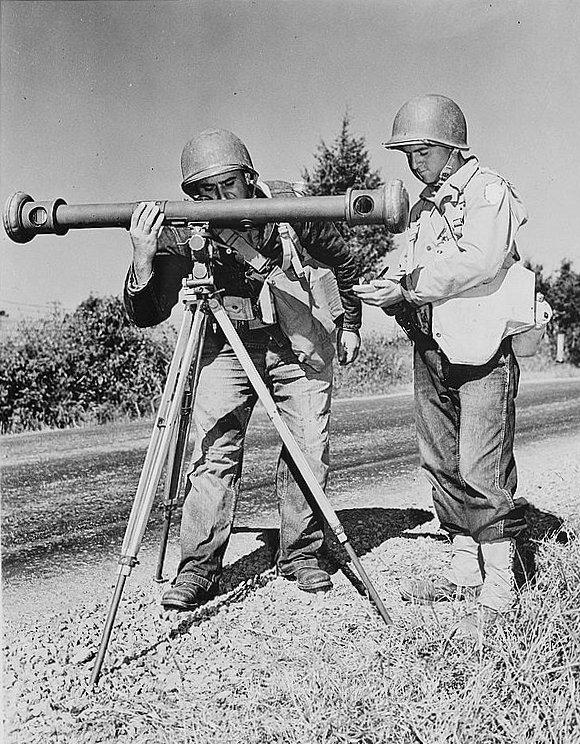 Corporal Hanry Manoni and Sergeant Joseph Loftis sight through a rangefinder in the process of aiming big guns of their artillery battery during Second Army maneuvers in Tennessee.